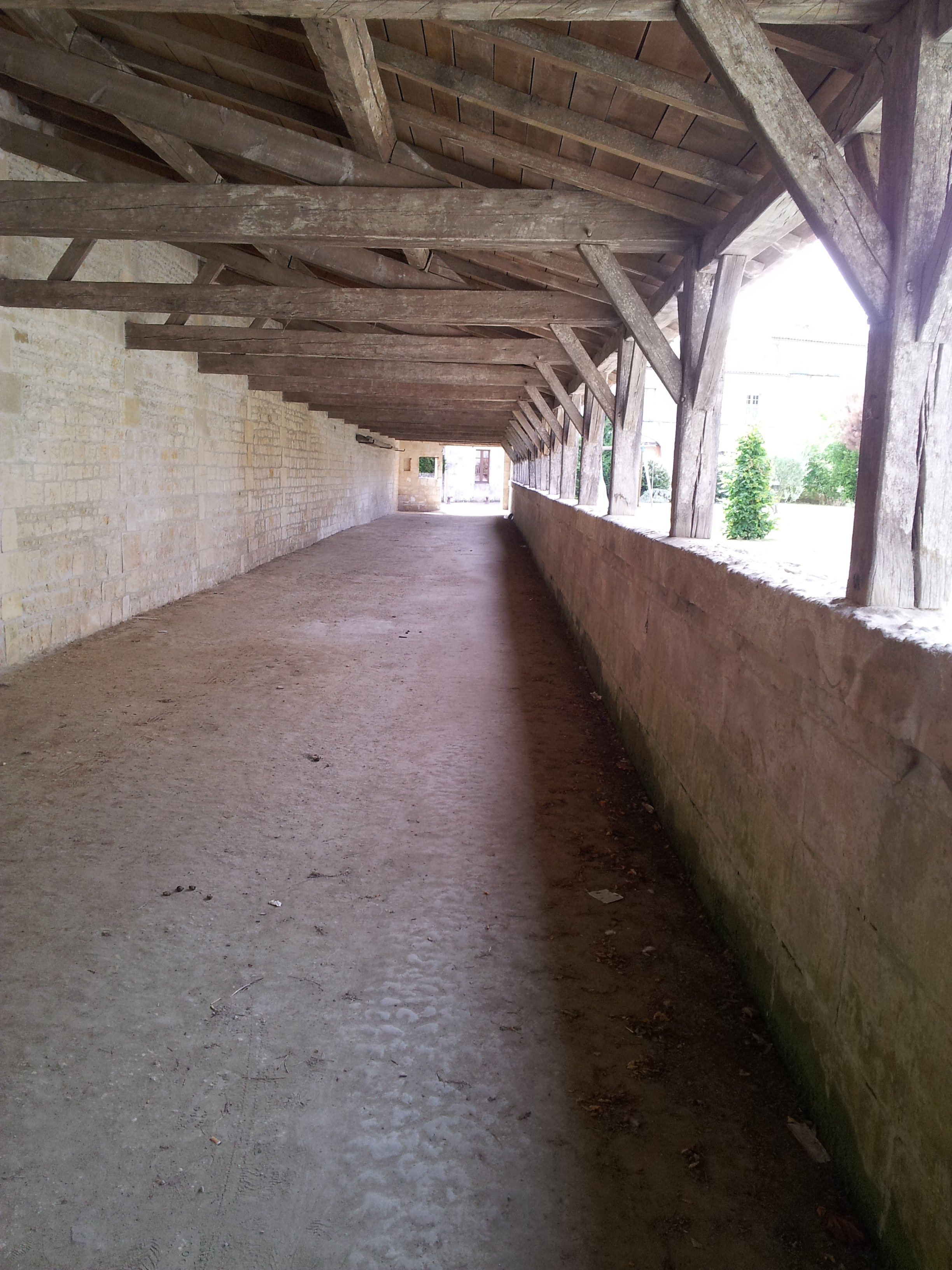 Covered market - Tesson